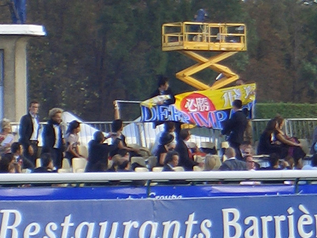 The fan of Deep Impact (2006 Prix de l'Arc de Triomphe)